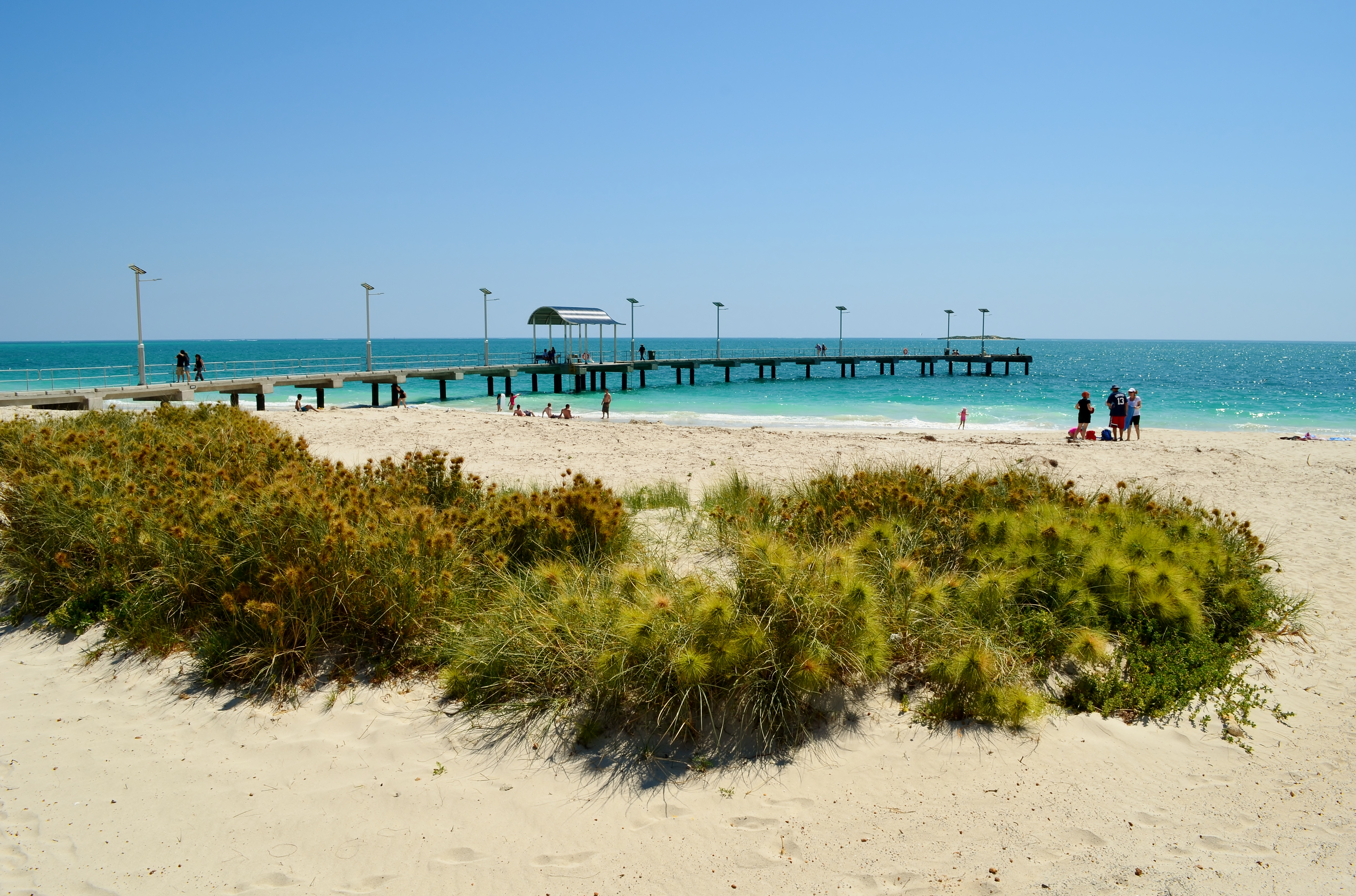 The new Jurien Bay Jetty, Jurien Bay, Western Australia. It was opened by the Minister for Regional Development and Minister for Lands, Brendon Grylls, on 30 April 2011.